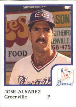 A baseball card of Jose Alvarez from the 1986 ProCards Greenville Braves set.